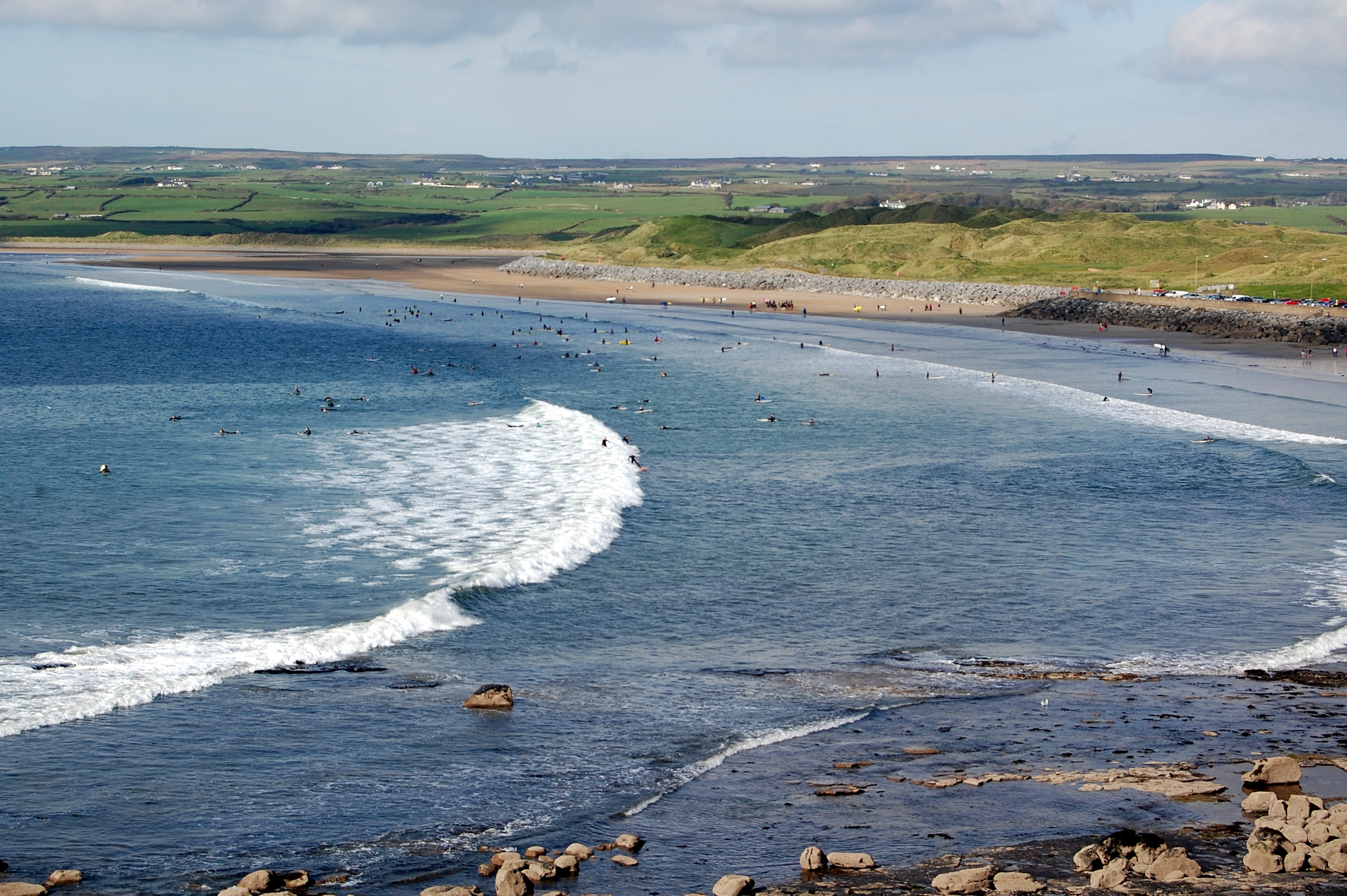 Lahinch Strand as viewed from the public carpark on the Milltown Bay road overlooking the beach. October 2009